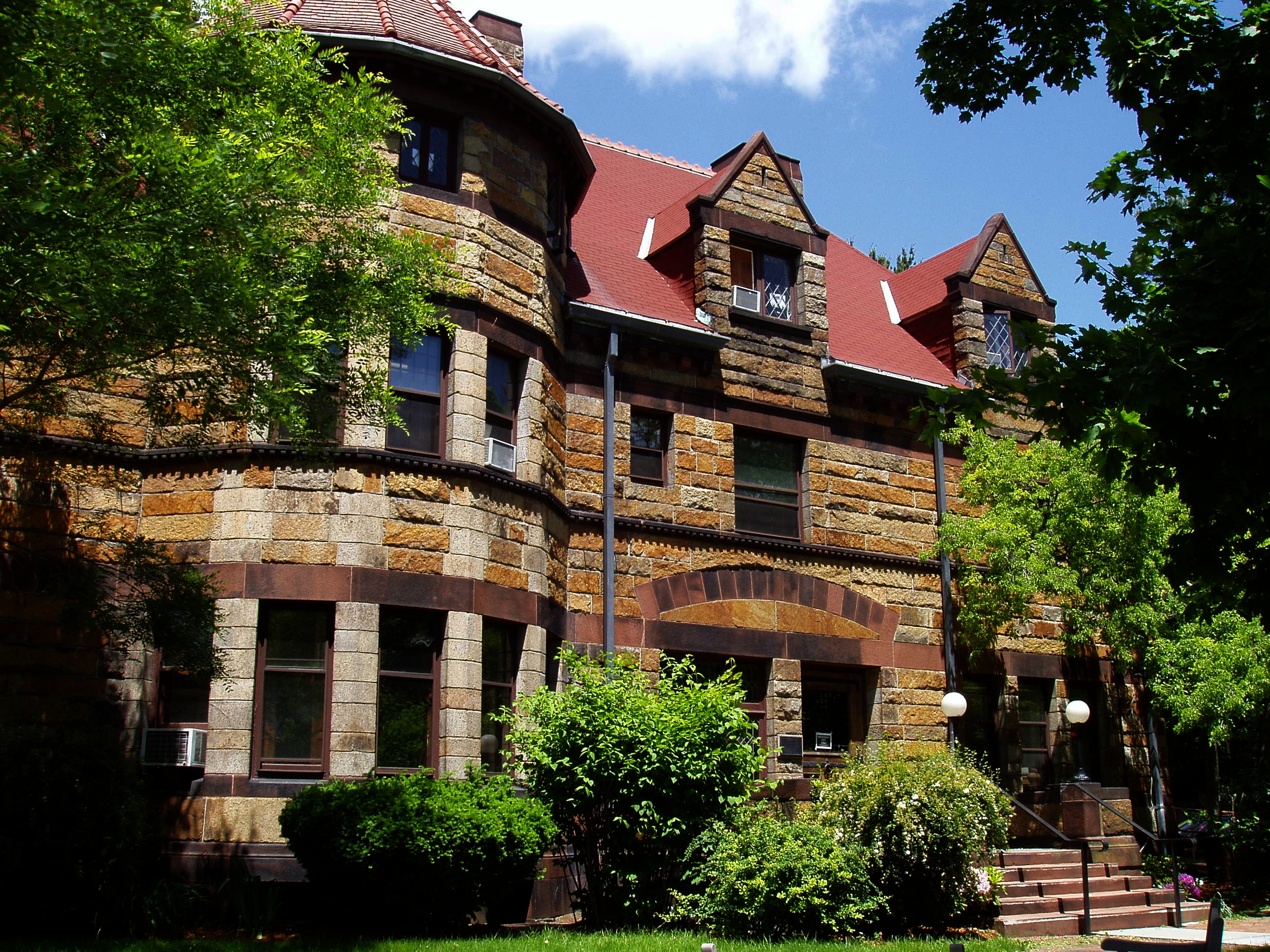 Longy School of Music, Cambridge, Massachusetts. Photograph taken by me.